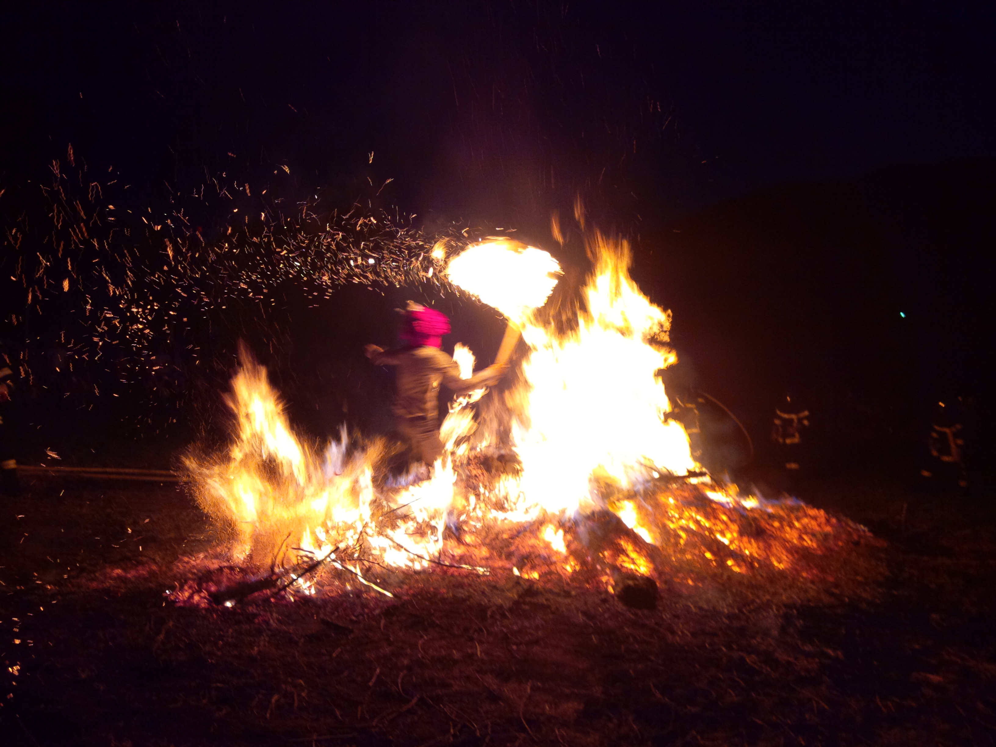 Young guys walking through the wall of fire ( firewall ) traditional prove of fearless in Alsace